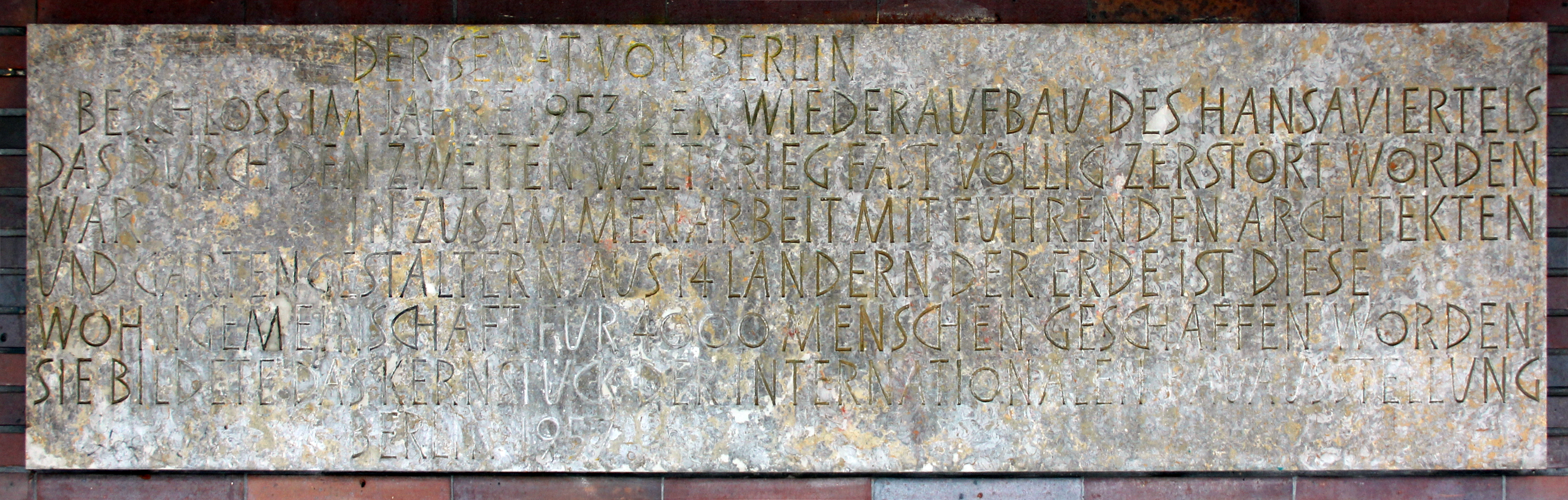 Memorial plaque, Hansaviertel, Hansaplatz, Berlin-Hansaviertel, Germany